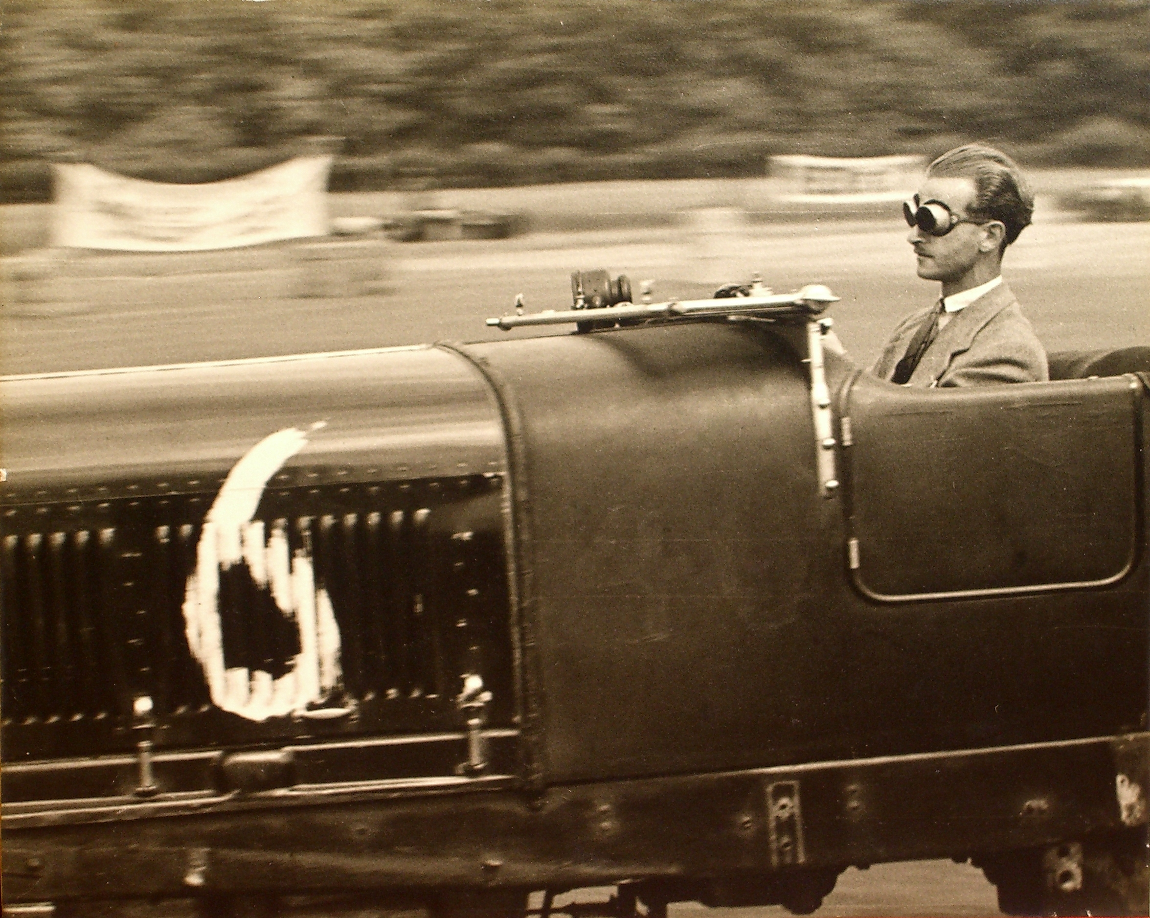 Pierre Maréchal racing his McKenzie-modified Bentley Speed Six at Gransden Lodge, England, 1947